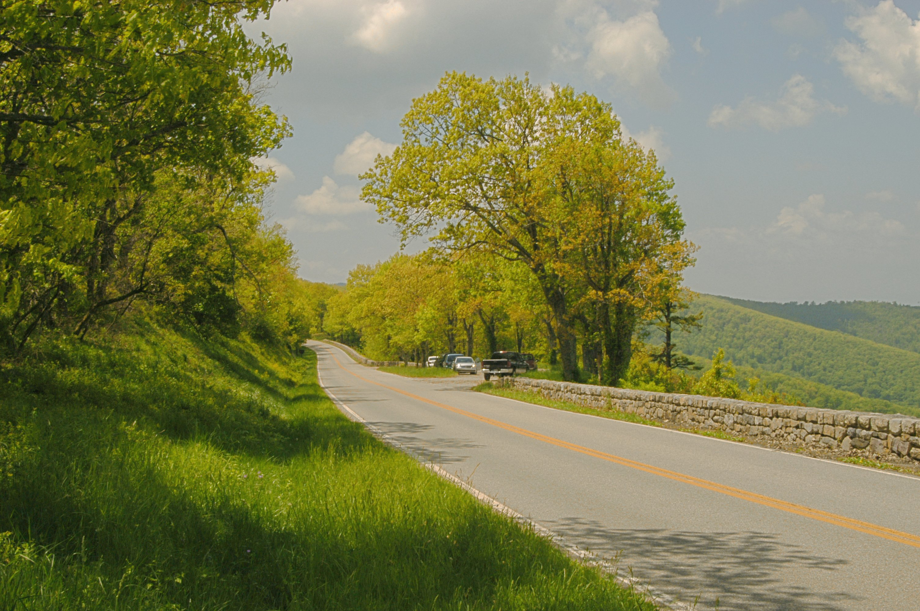 Skyline Drive in Shenandoah National Park, VA